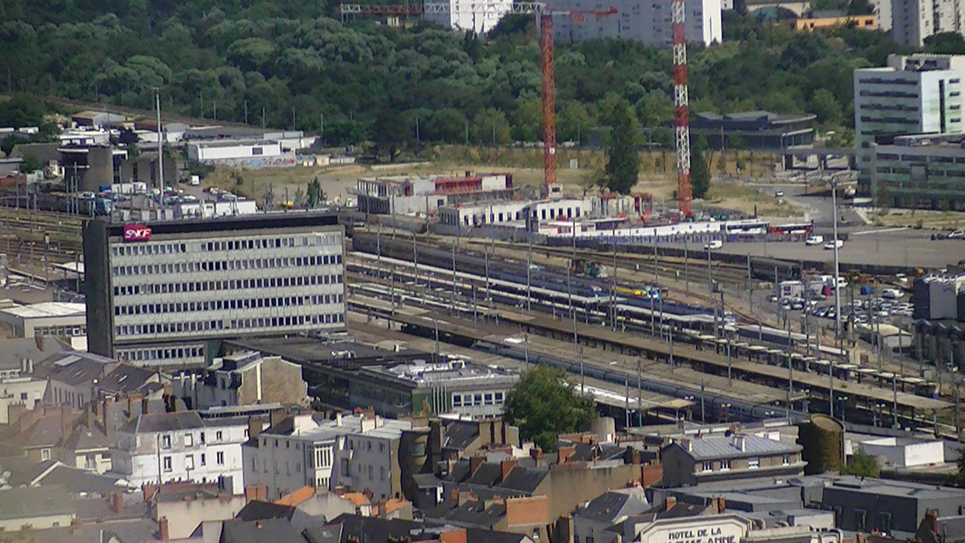 Gare SNCF, Nantes, as seen from the observation deck of the Tour Bretagne.